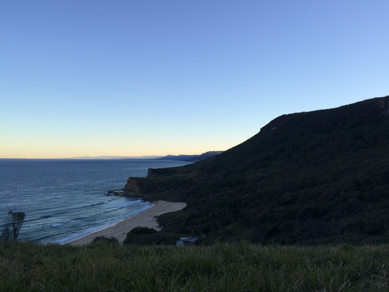 View from Burgh Ridge Track of Burning Palms Beach, facing southwest